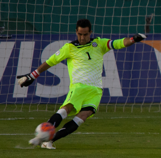 Claudio Bravo during match between Uruguay and Chile on 11/11/11